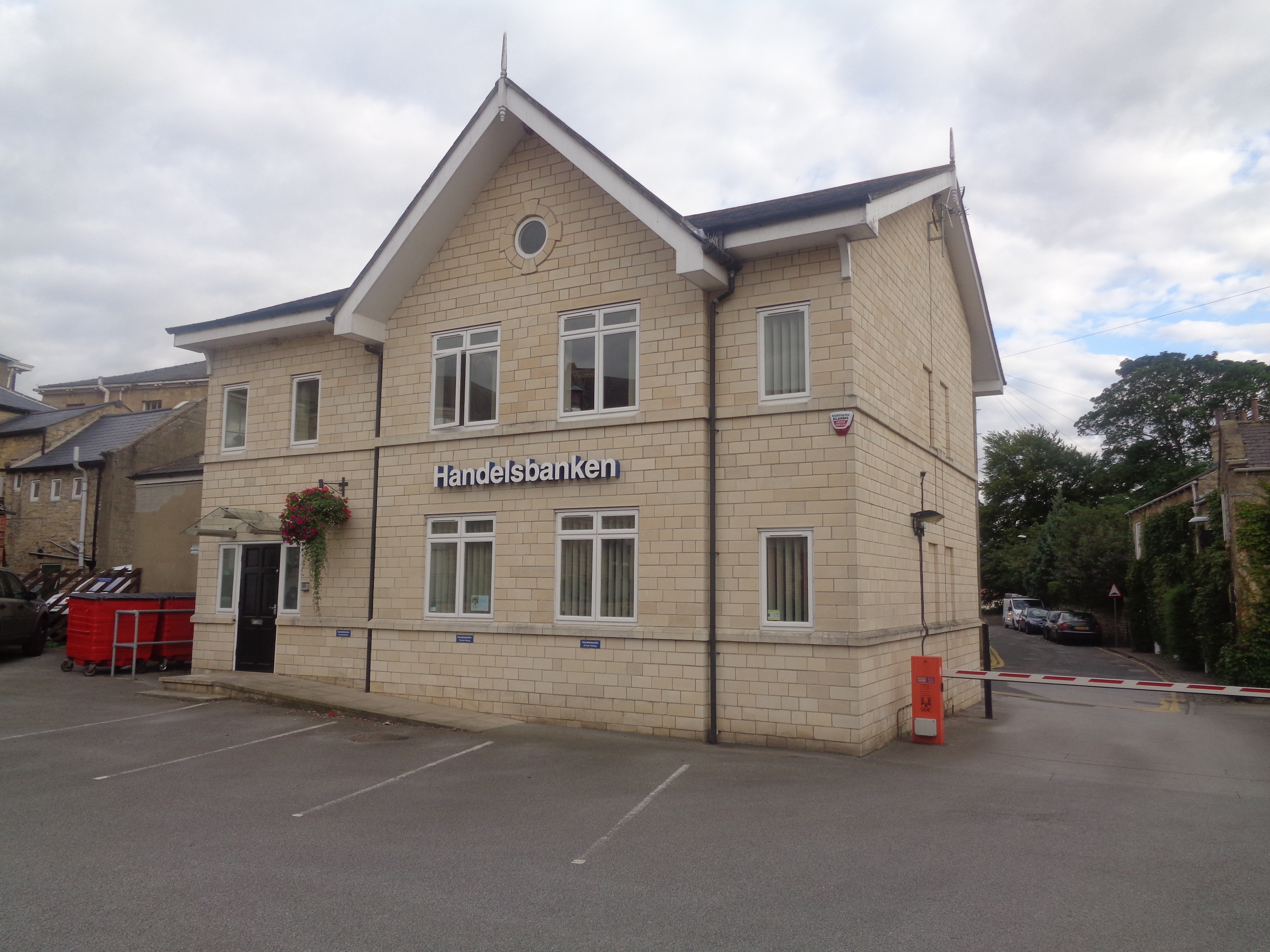 Handelsbanken, Scott Lane, Wetherby, West Yorkshire. Taken on the afternoon of Monday the 3rd of August 2015.